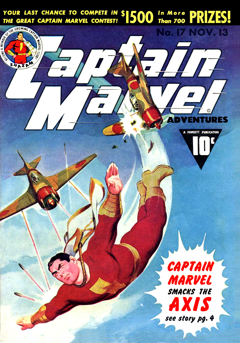 "Captain Marvel smacks the Axis" on the cover of Captain Marvel Adventures number 17 (Fawcett Comics, November 1942). Comic books were an important source of wartime propaganda for the United States., Artwork by Charles Clarence Beck, one of a small number of painted covers produced for this series.